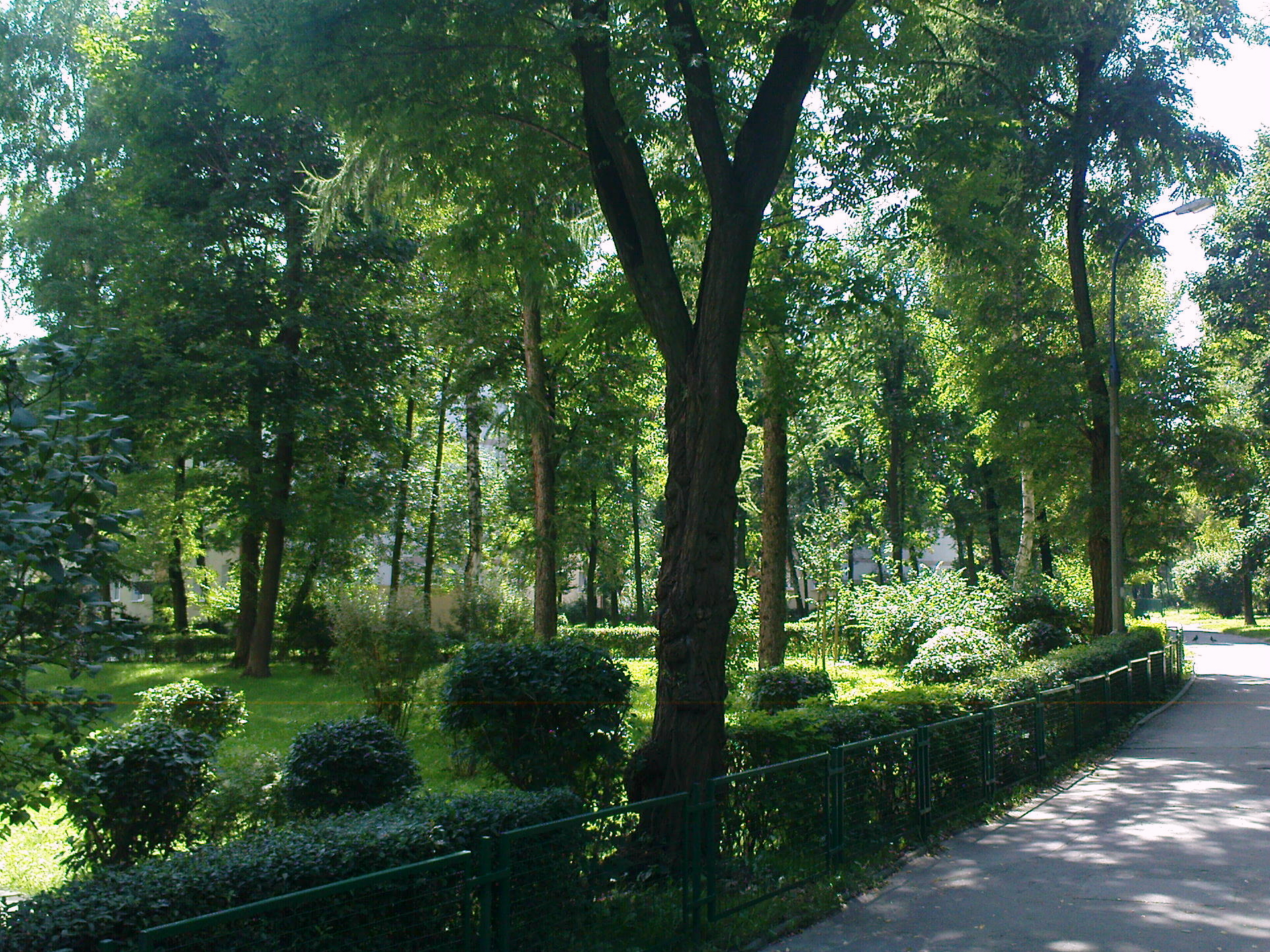 The Housing Kozłówka - alleys